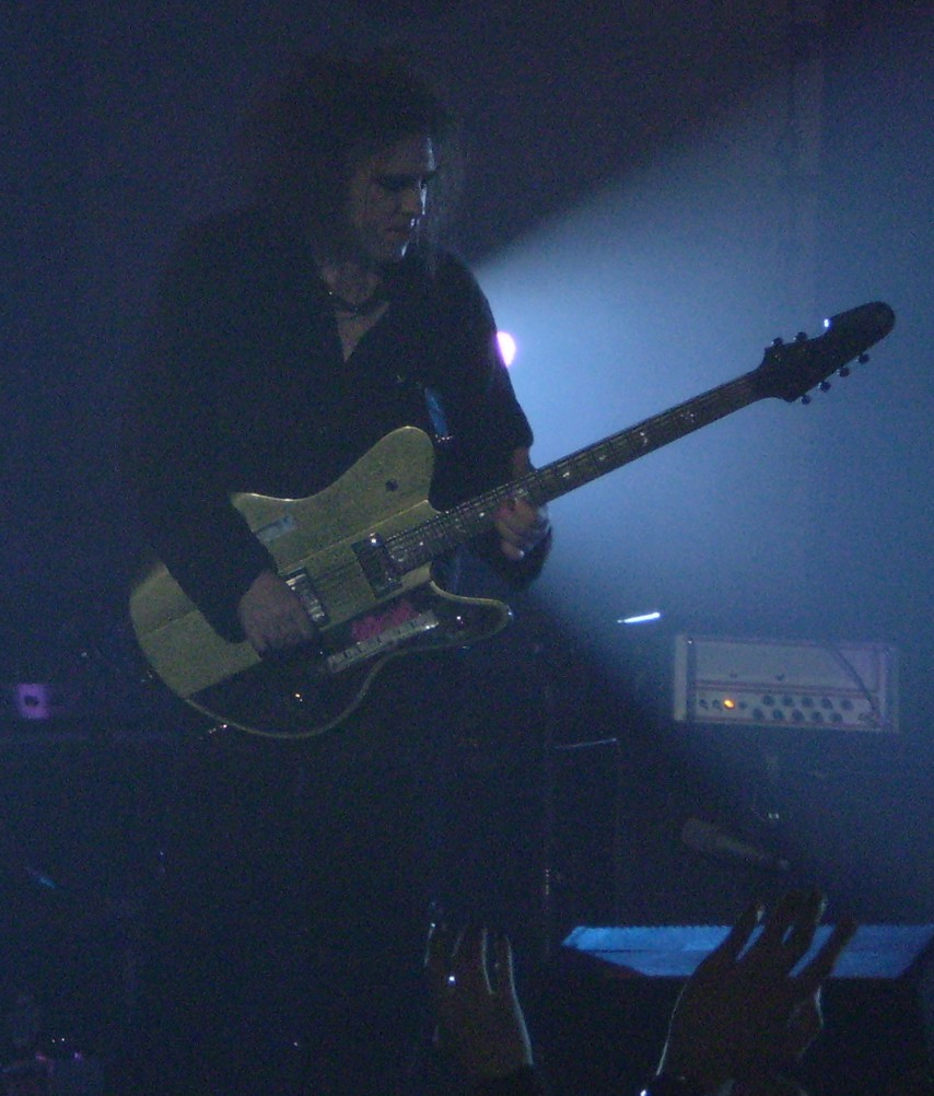 Robert Smith of The Cure live in Rome Schecter Robert Smith UltraCure